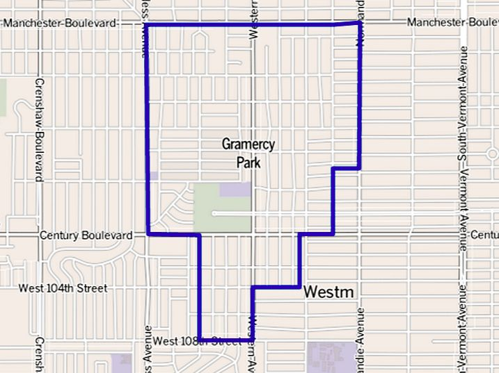 Boundary map of Gramercy Park neighborhood, Los Angeles, California, as outlined by L.A. Times on an open-source map. Other information Boundary map as drawn by the Los Angeles Times on a CC-by-SA background. Note at bottom right of map on the L.A. Times website noted above says "CC-by-SA" (which gives permission to use the map). There is a link there to which explains the meaning thereof. The base map is credited to